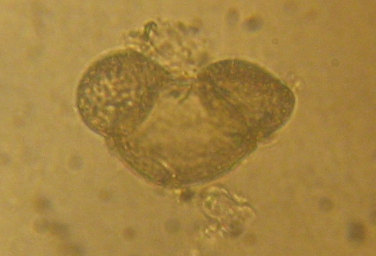 Pollen of Pinus sylvestris found in lake water.